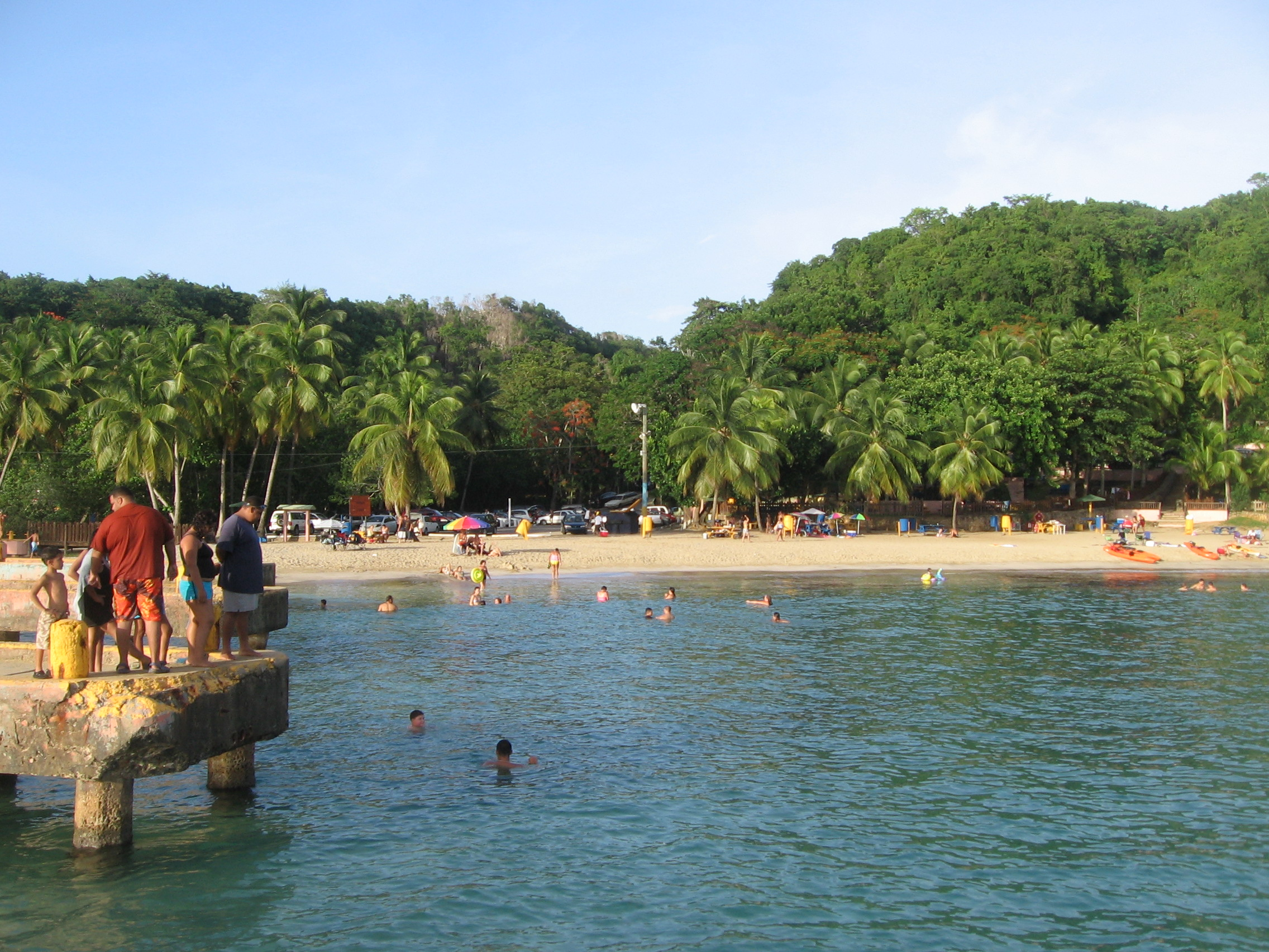 Photo of Crash Boat Beach - Aguadilla, Puerto Rico.